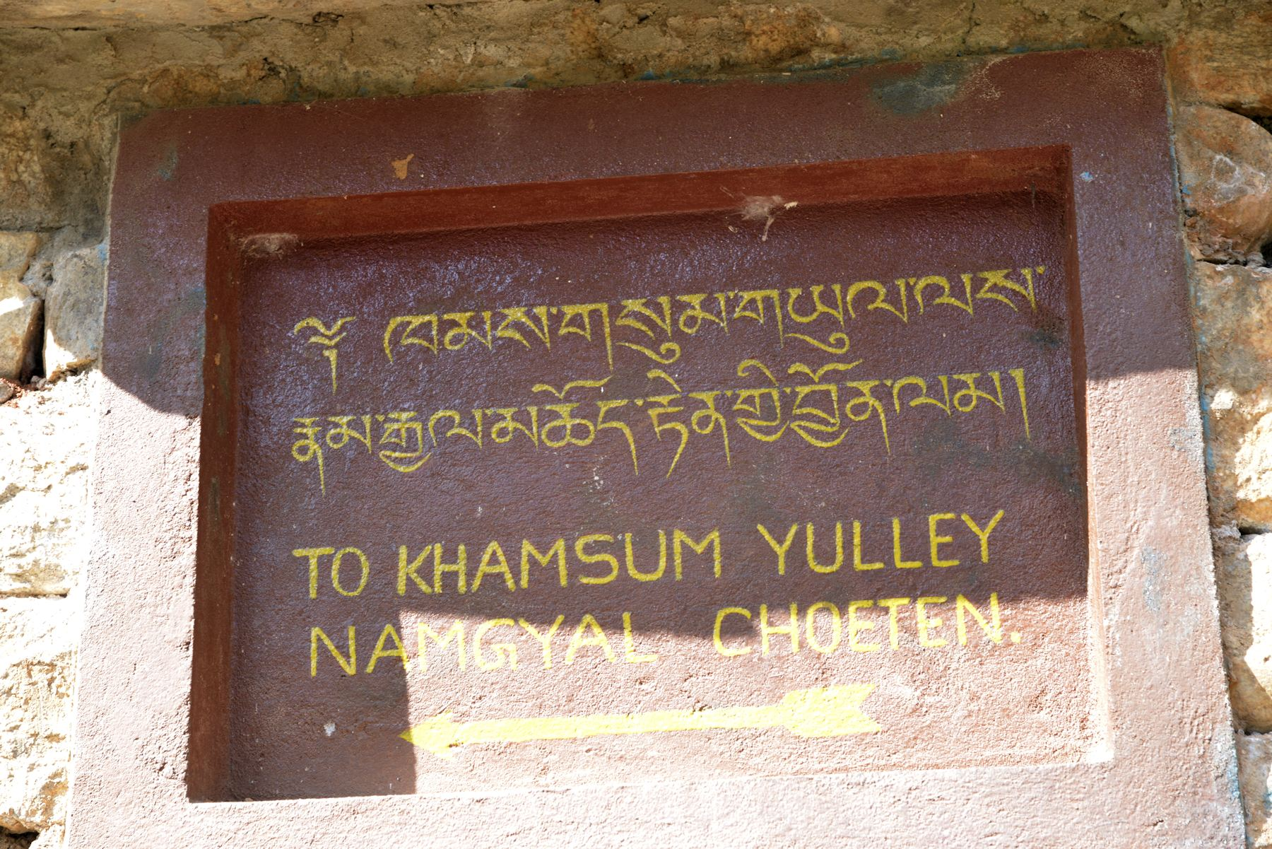 Path sign in Bhutan: "To Khamsum Yulley Namgyal Choeten."